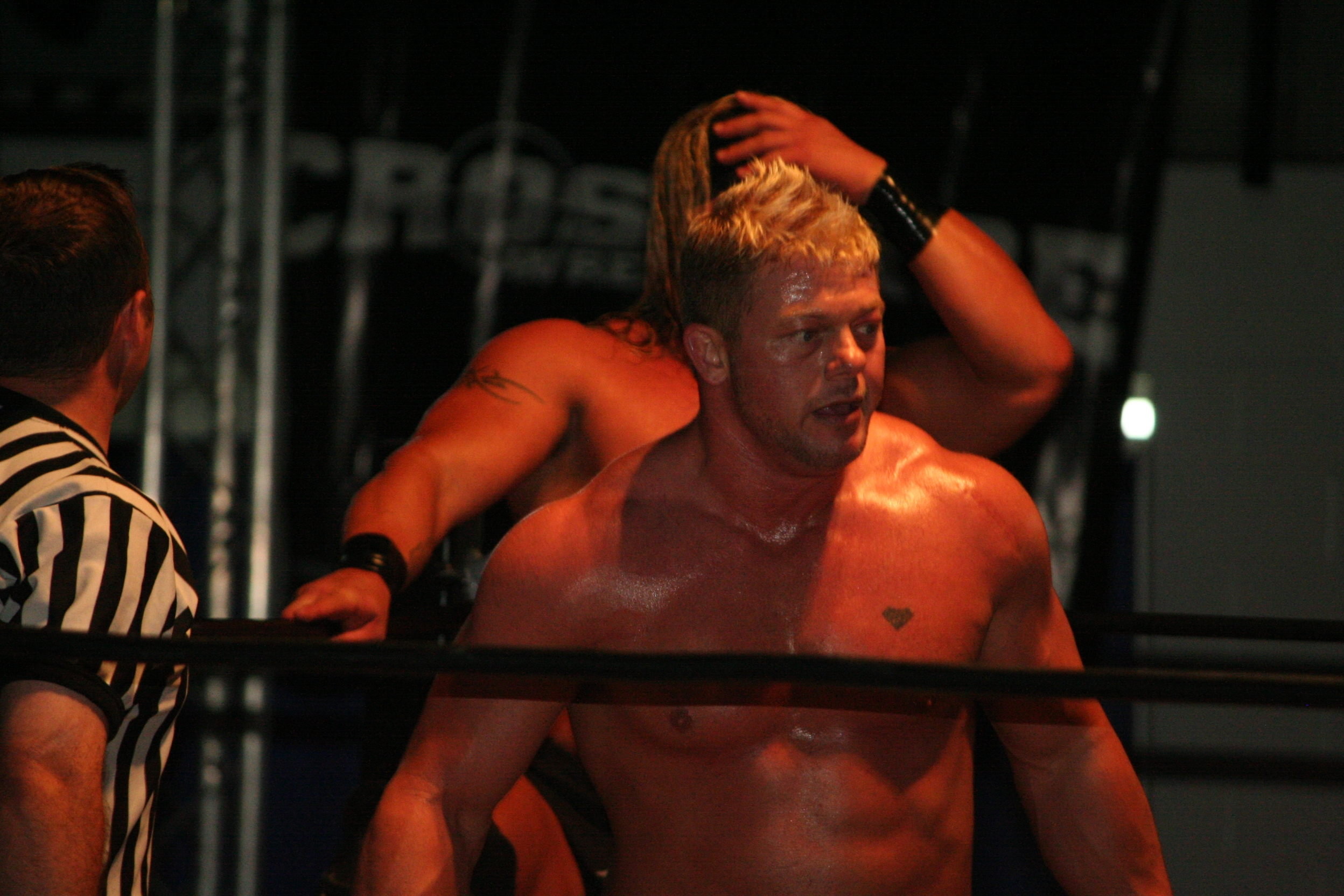 Cassidy Riley in the ring during a match in May 2011.